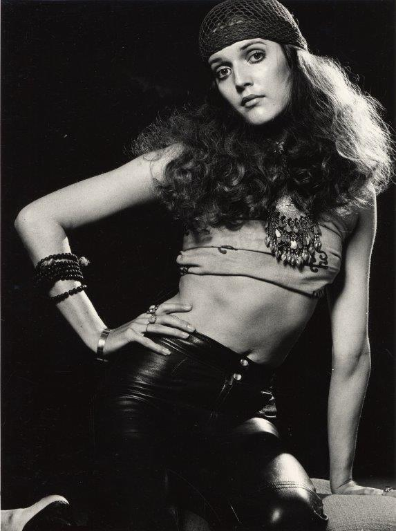 This photograph was taken for Judith Baragwanath's model portfolio by Max Thomson in the early 1970s. Judith is wearing her favourite leather pants.